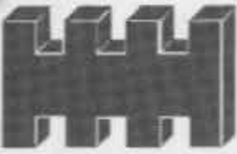 steckbaustein/building block of toy construction set